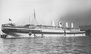 The France as a hospital ship.